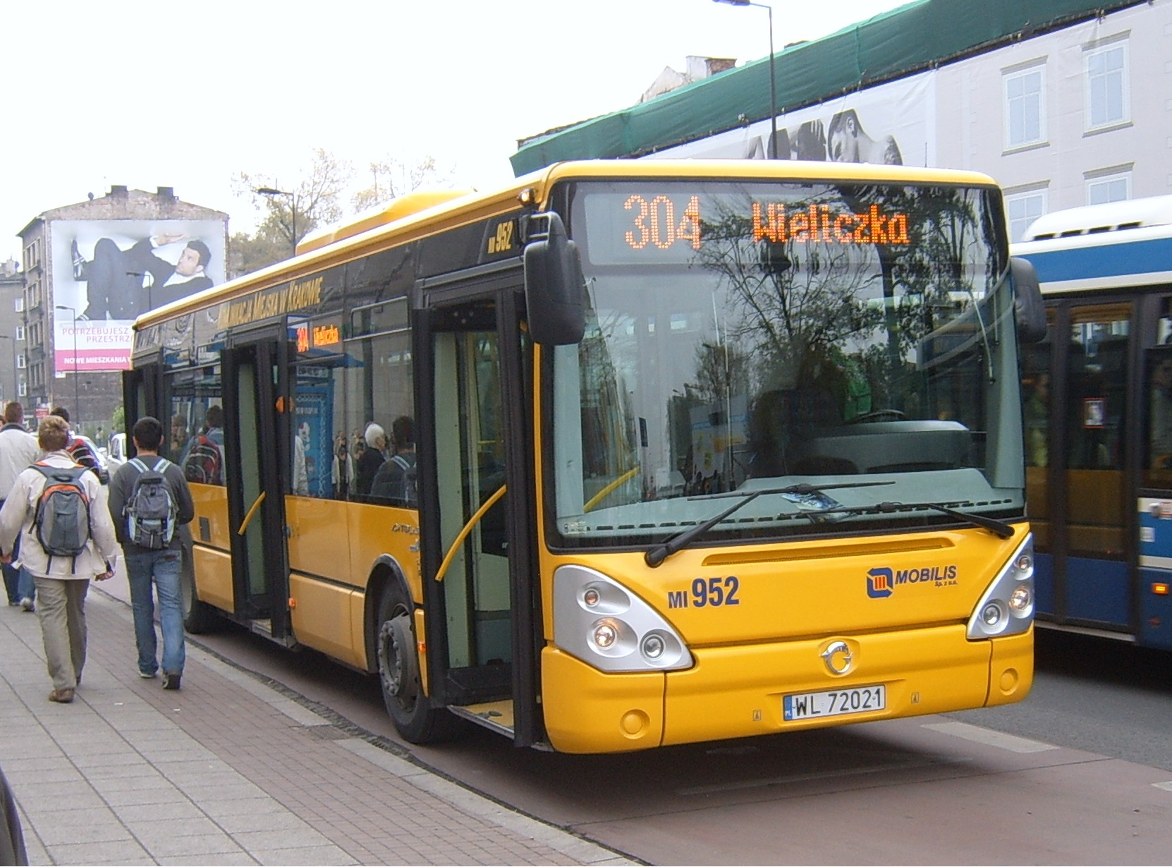 Irisbus Citelis 12M bus (MI952) in Kraków, Poland. Built 2008, Mobils operator.